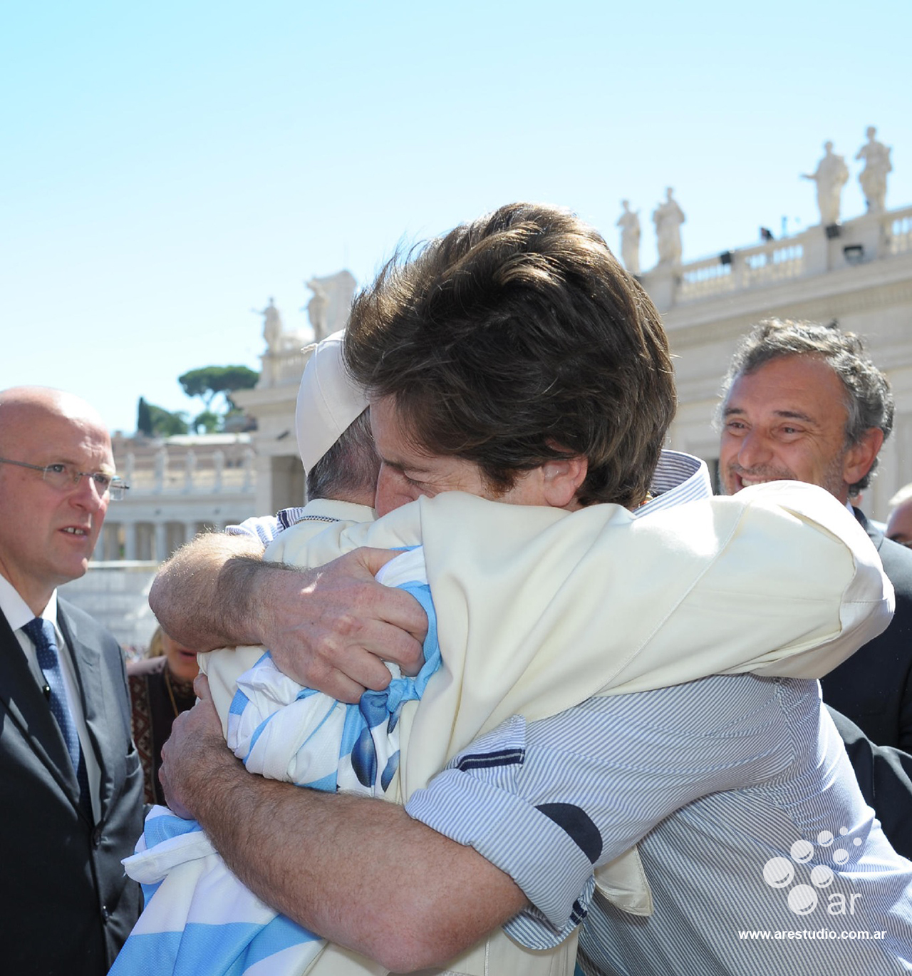 Nicolás García Mayor hugging Pope Francisco